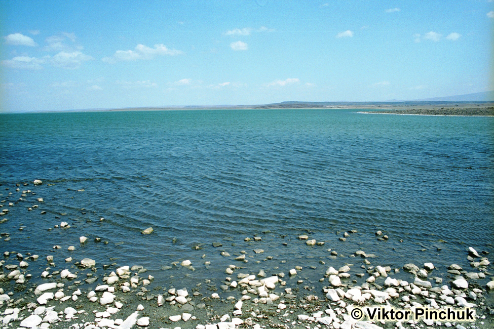 Lake Turkana (formerly Lake Rudolf), Kenya